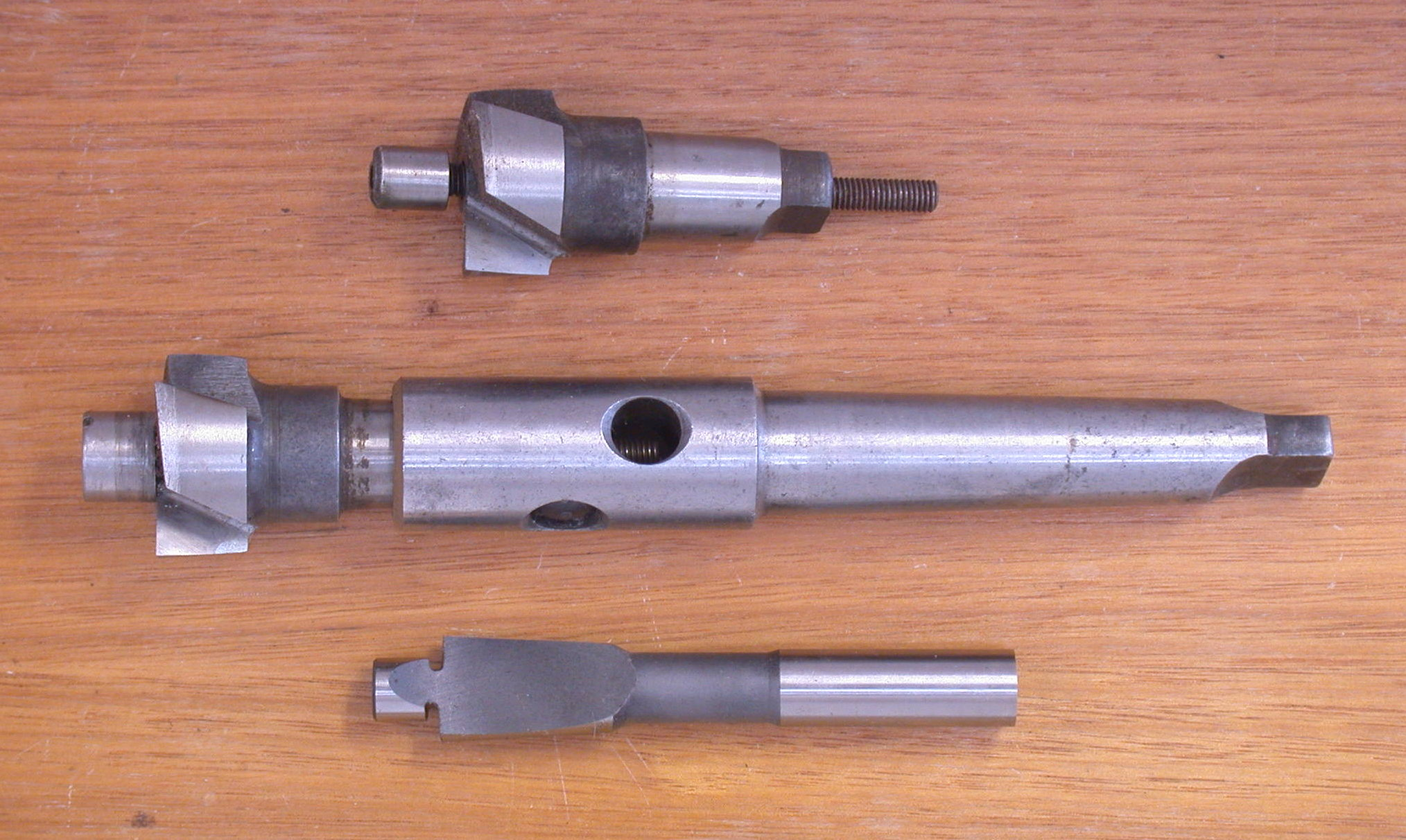 Photograph taken by Glenn McKechnie on the 24th March 2005.